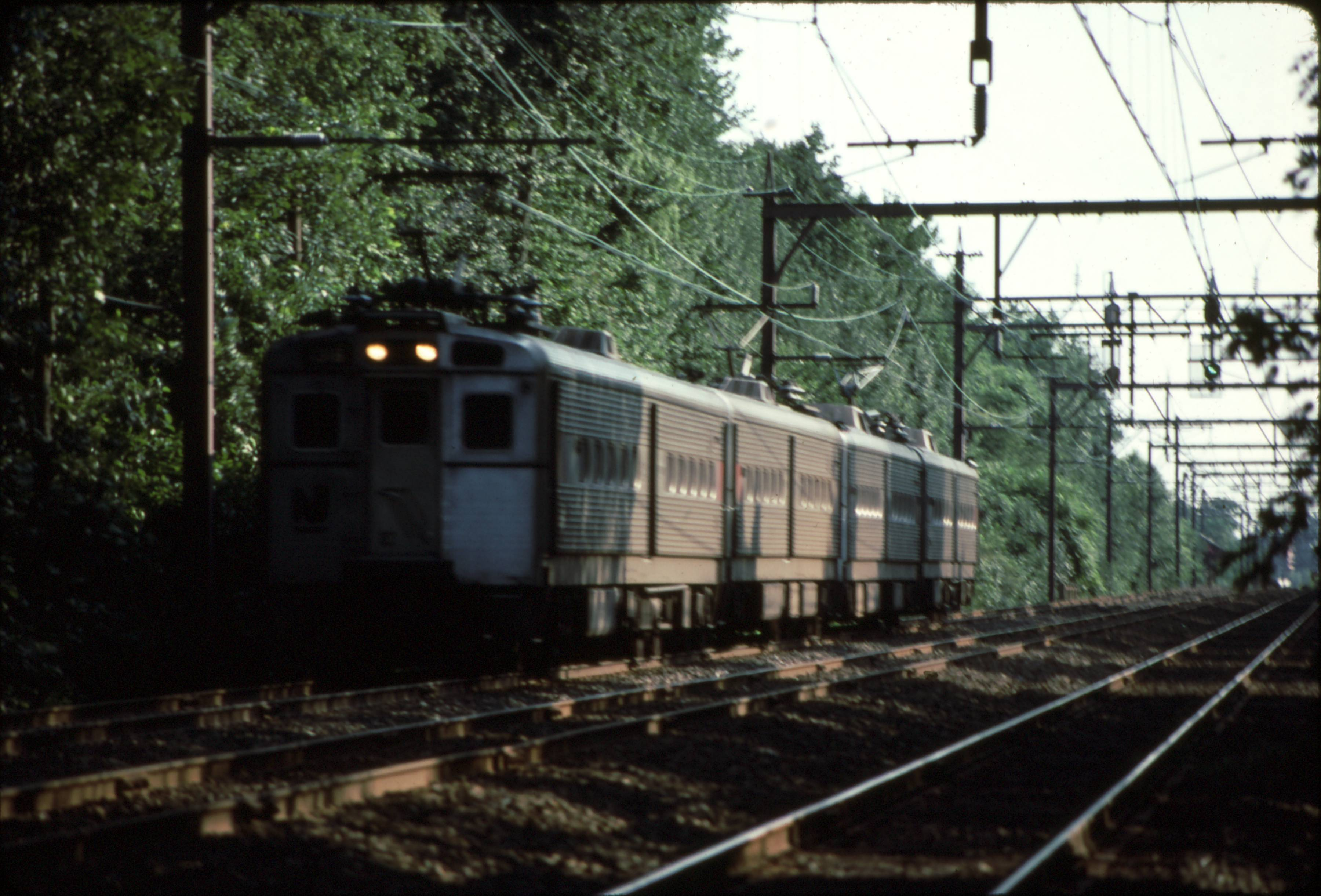 train at South Orange, NJ Other information scan of color slide